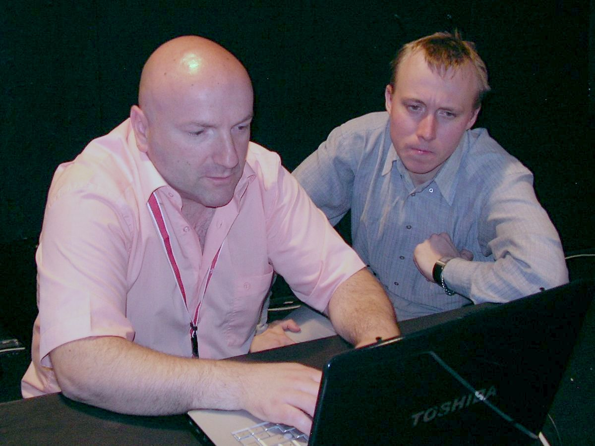 Georgios Souleidis and Ruslan Ponomariov at the press center, Dortmunder Schachtage 2010, Photographer Gerhard Hund.